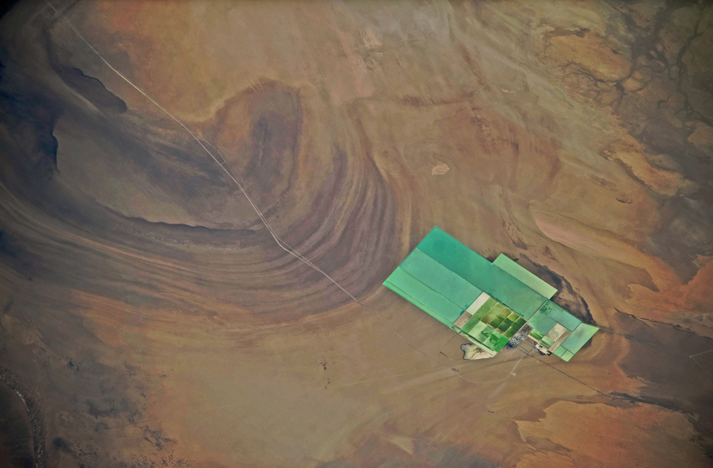 The satellite picture shows a part of the former See Lop Nur in the Lop Desert, Xinjiang, China, with a production plant to produce yearly 1.2 million tons potash fertilizer. You see at the left side a part of the „Big Ear“ of Lop Nur and in the right corner at the top the former delta of the Tarim river. The world's largest potash fertilizer production plant in the size 10 to 21 km and the area 164 km² is built in the former Lake Lop Nur, Xinjiang, China. The first phase of the project which has an annual capacity of 1.2 million tons was put into operation on Dec. 18, 2008. The second phase with another annual capacity of 1.7 million tons has been launched 2009 and will be operational in 2014. The 3 million program will make Lop Nor the largest potash fertilizer production base in the world. The Project of Development and Utilization of Sylvite Resources in Lop Nur region employs the technique of producing potassium sulphate through magnesium sulfate subtype brine, which filled a technological gas of this kind and made China among the fewer countries that could produce potassium sulphate from brine directly taken from salt lake. The north is at the right side of the image. The satellite picture is taken 2009-10-12. For more informatiom see here, here and here.